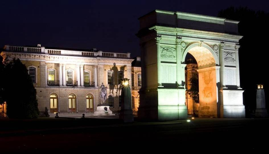 The former Institution of Royal Engineers building now HQ Royal School of Military Engineering at Brompton Barracks.